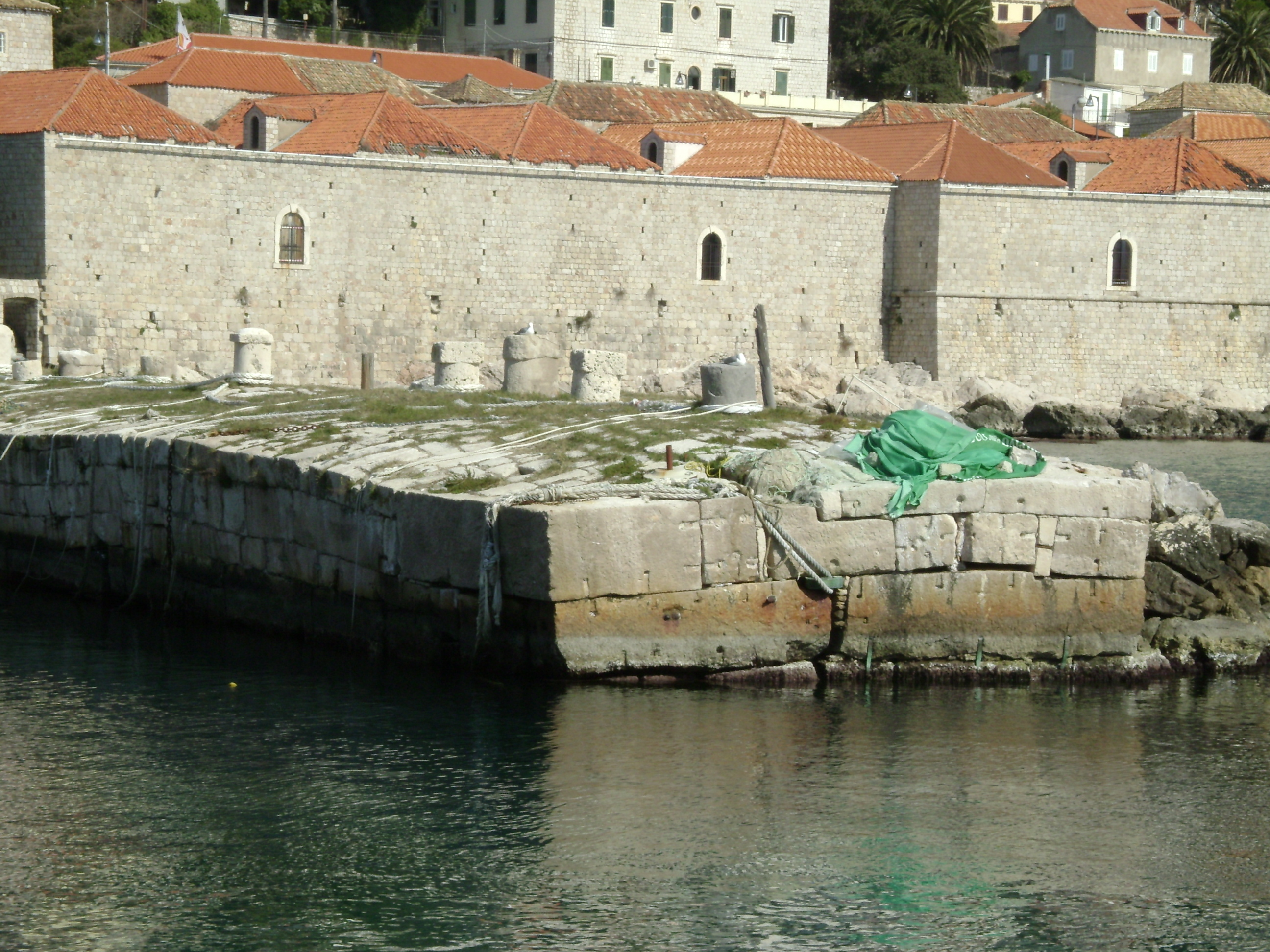 Dubrovnik, old town, monuments. Kaše